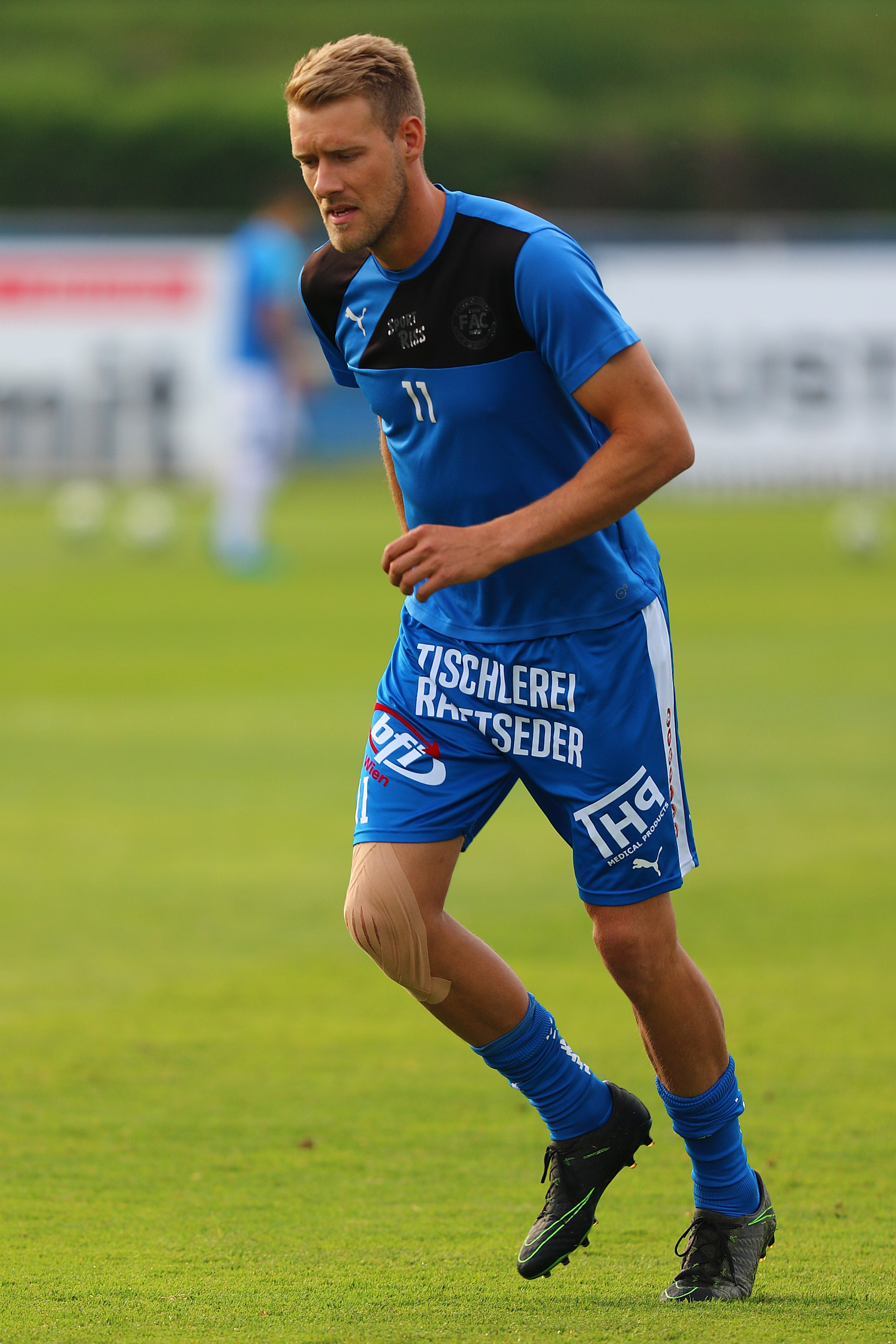 Football-championship Erste Liga 2017–18 - SC Wiener Neustadt (white shirts) vs. Floridsdorfer AC (blue shirts) 1-0. – The photo shows Tomáš Dočekal